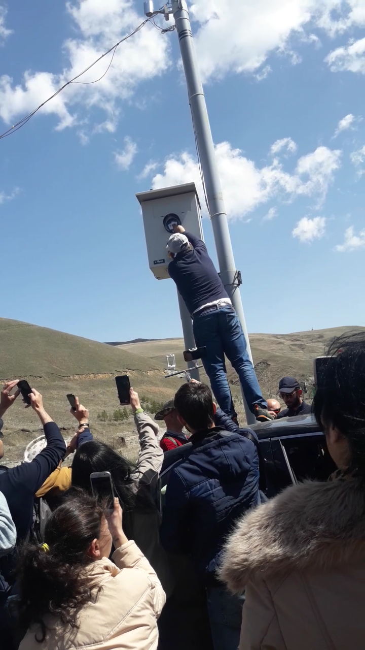 Nikol Pashinyan